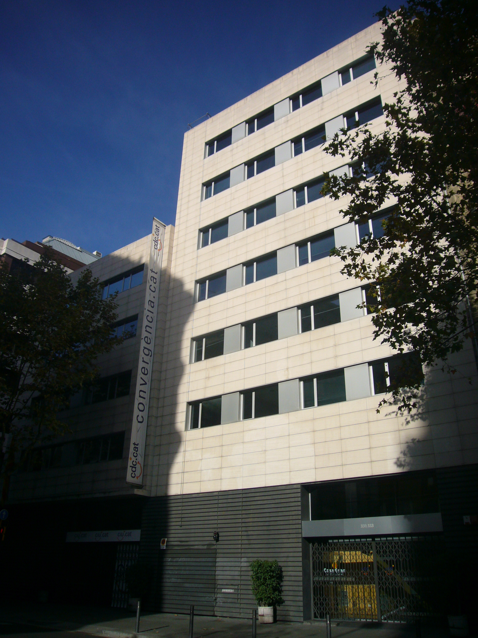 Head office of the CDC political party, Còrsega street, Barcelona